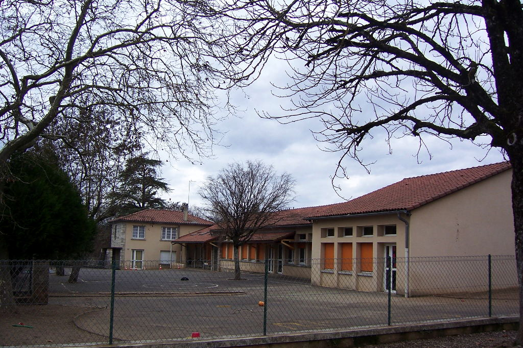 Primary school of town Assier in France.